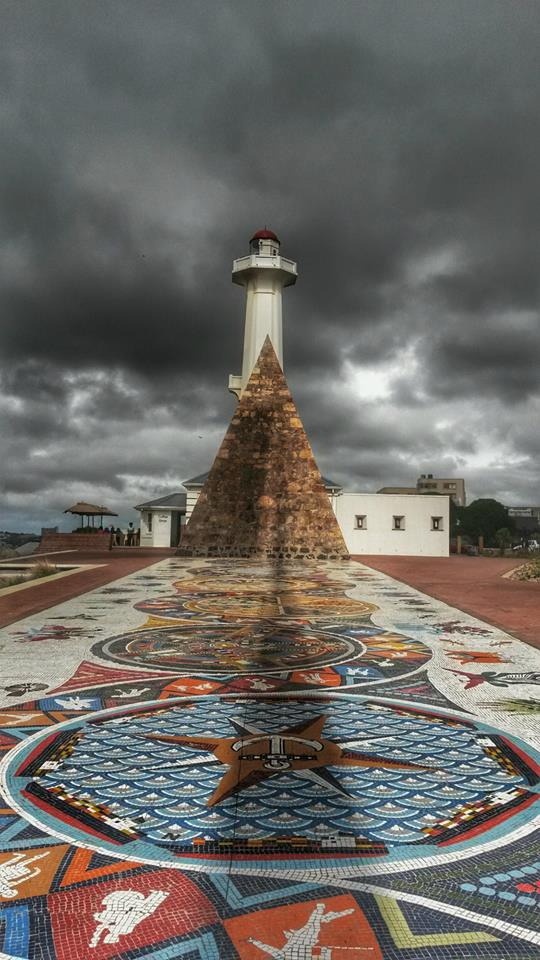 The Donkin Reserve in Port Elizabeth, taken in September 2014. It portrays both the older and parts of the newer sections of the monument. This media shows a South African Protected Site with SAHRA file reference 9/2/073/0005.